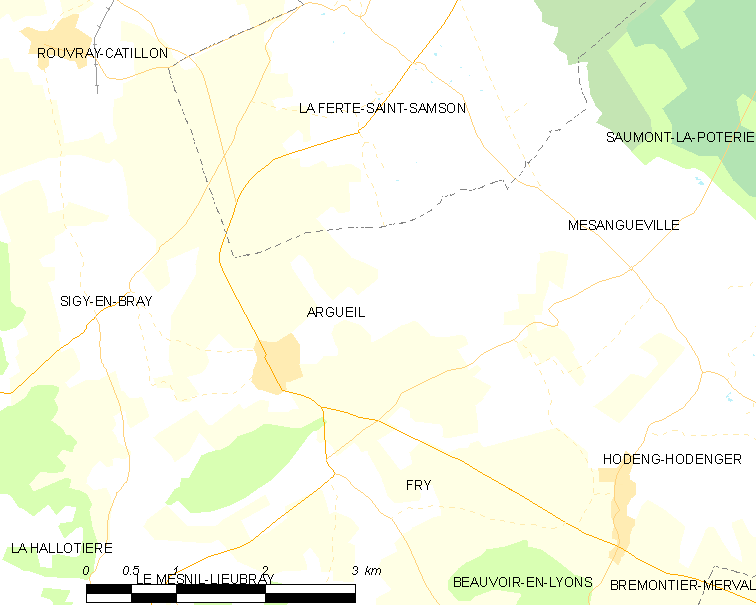 Map of French municipality Argueil